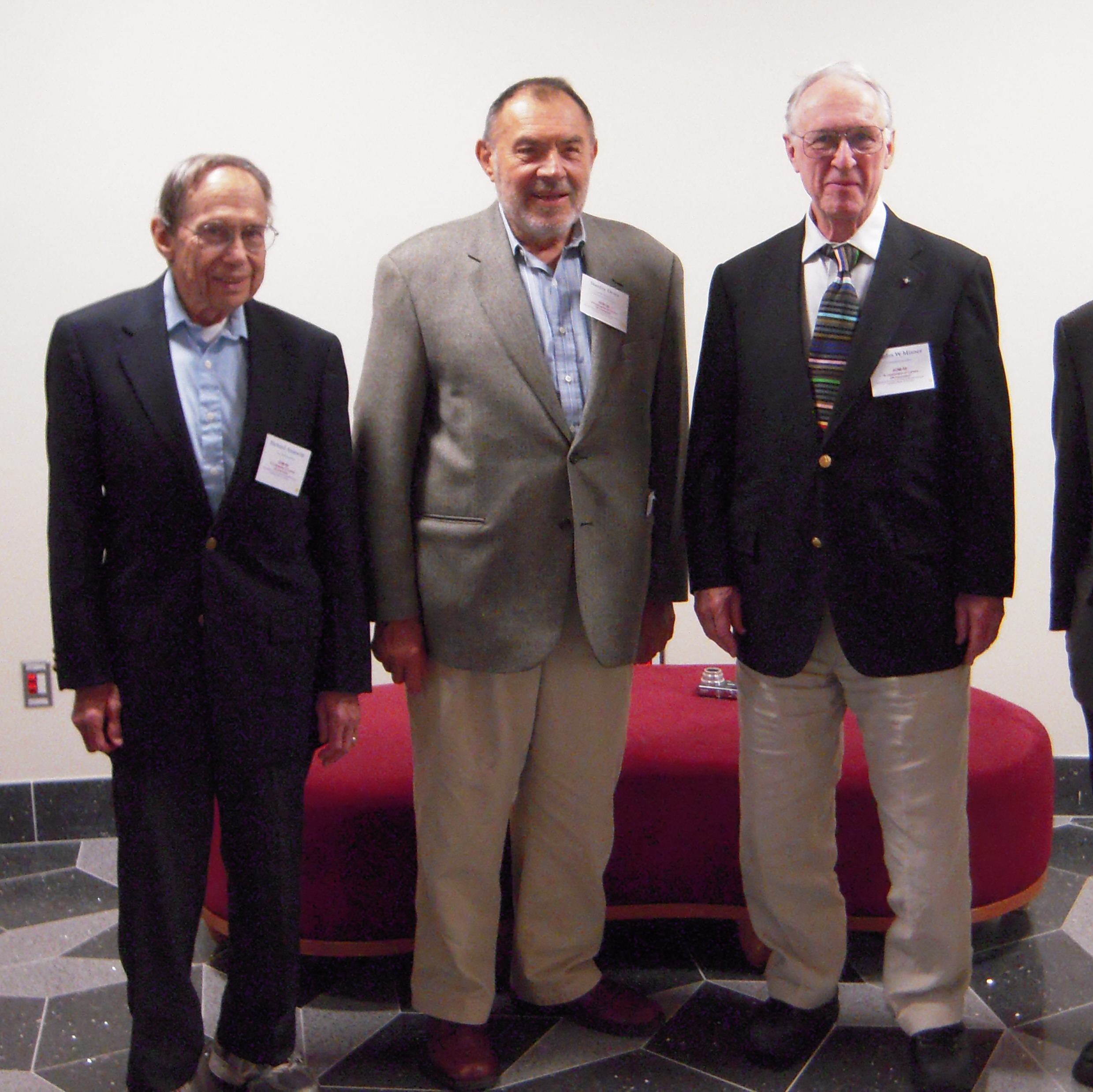 ADM collaboration in 2009 - Richard Arnowitt, Stanley Deser, and Charles Misner